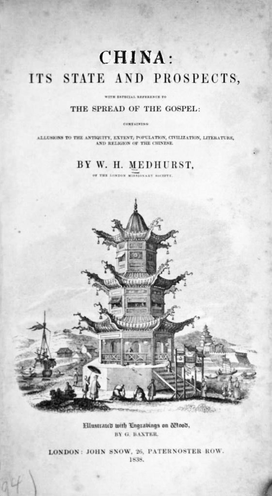 From Medhurst, William; China: Its State and Prospects; John Snow; London 1838